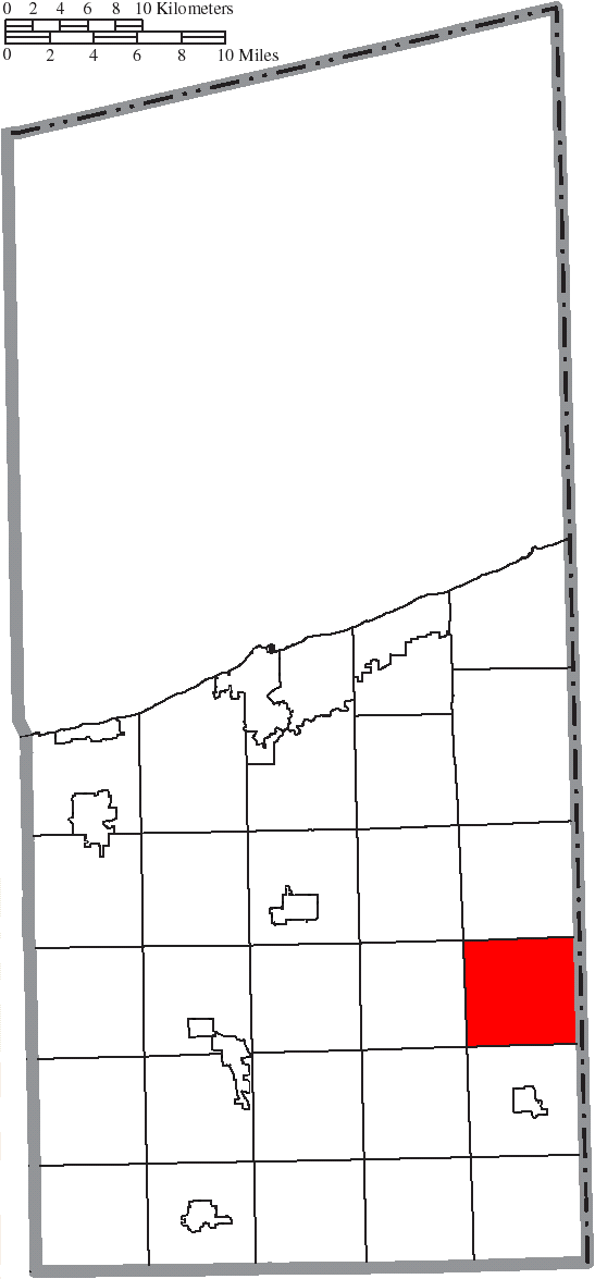 Map of the municipal and township boundaries of Ashtabula County, Ohio, United States, as of the 2000 census, with the location of Richmond Township highlighted. Township borders are shown only in unincorporated areas in order to differentiate incorporated and unincorporated areas more clearly.